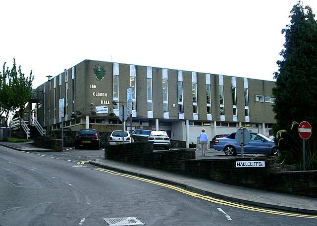 Ian Clough Hall - Hallcliffe Named in memory of Ian Clough, climber, 1937-1970, who was killed on 30 May 1970, whilst descending Annapurna. He was a climbing partner of Chris Bonnington. The building houses the Baildon Library and Information CEntre.